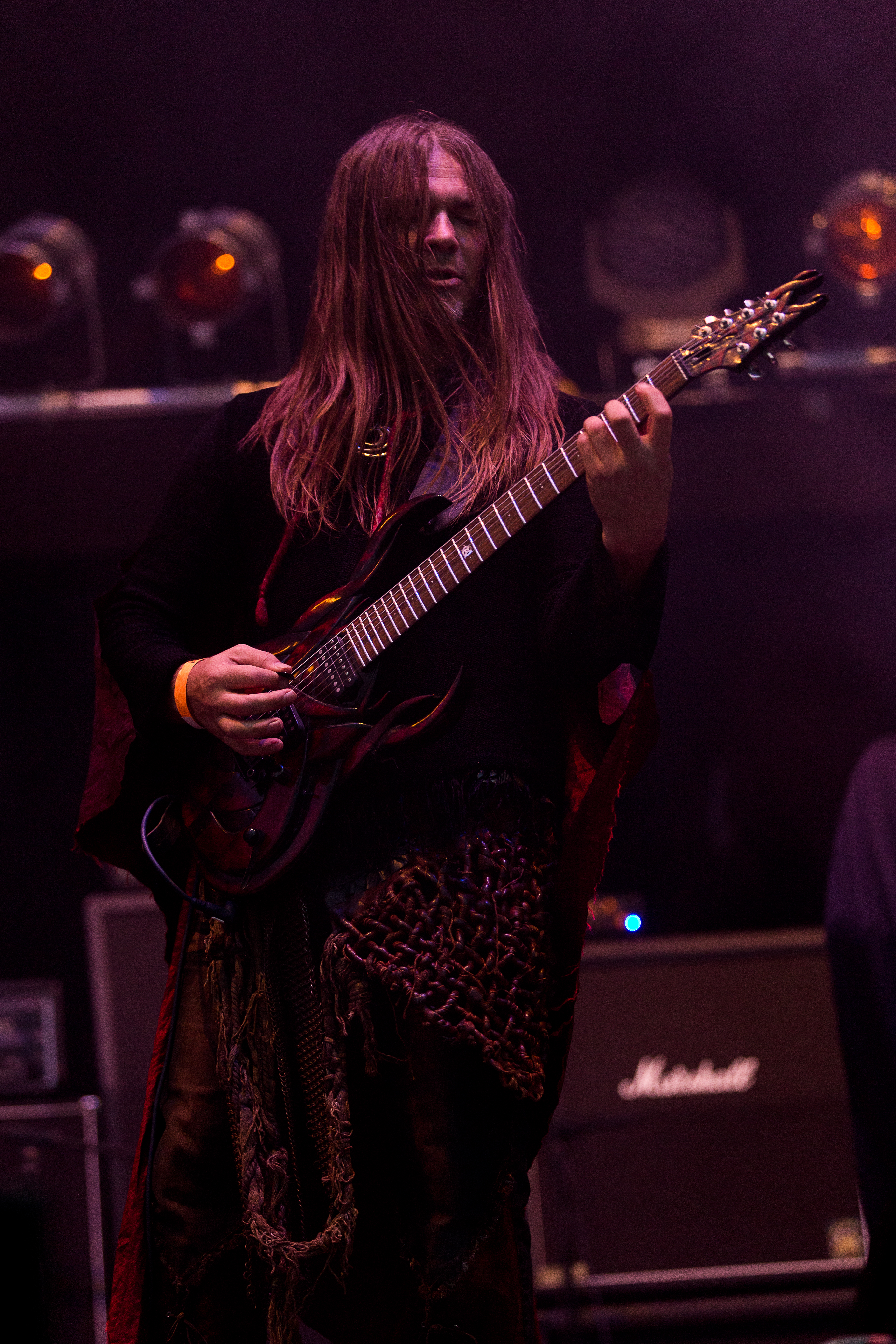 The Norwegian black metal band Arcturus at the Party.San Metal Open Air 2016 in Obermehler-Schlotheim/Germany